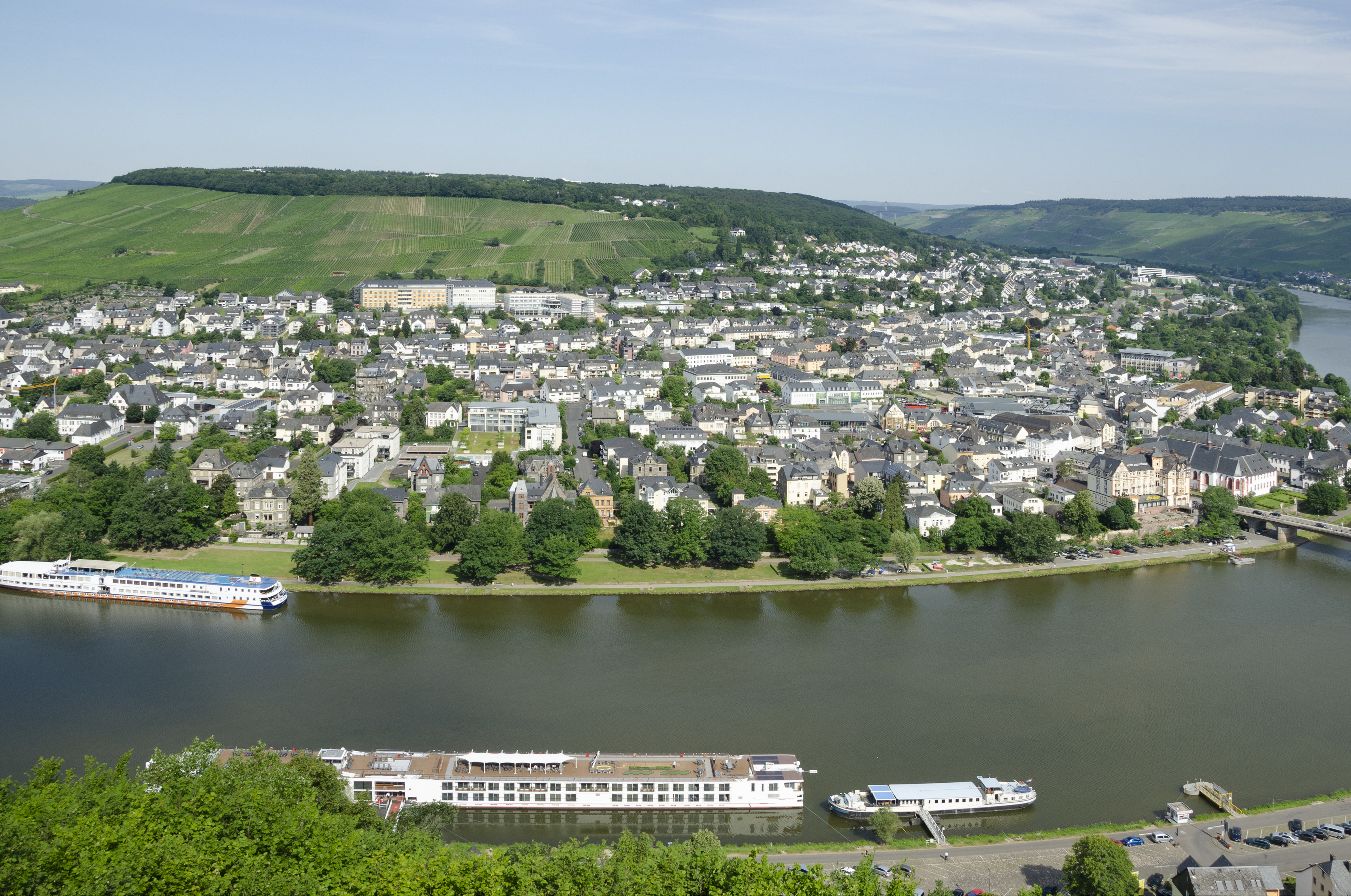 Kues, Germany, seen from the castle (Burg Landshut).